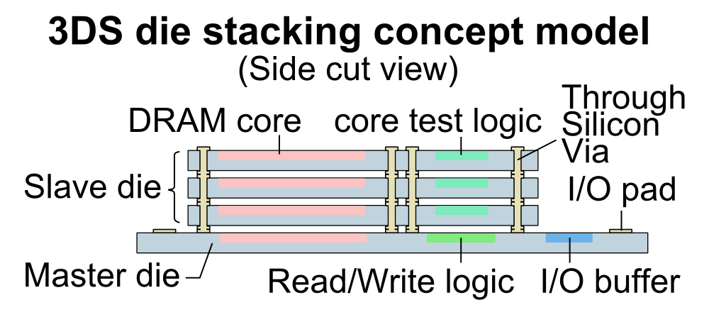 3DS die stacking concept model Made by uploader (ref:JEDECが「DDR4」とTSVを使う「3DS」メモリ技術の概要を明らかに) Upload Date:2011-11-11